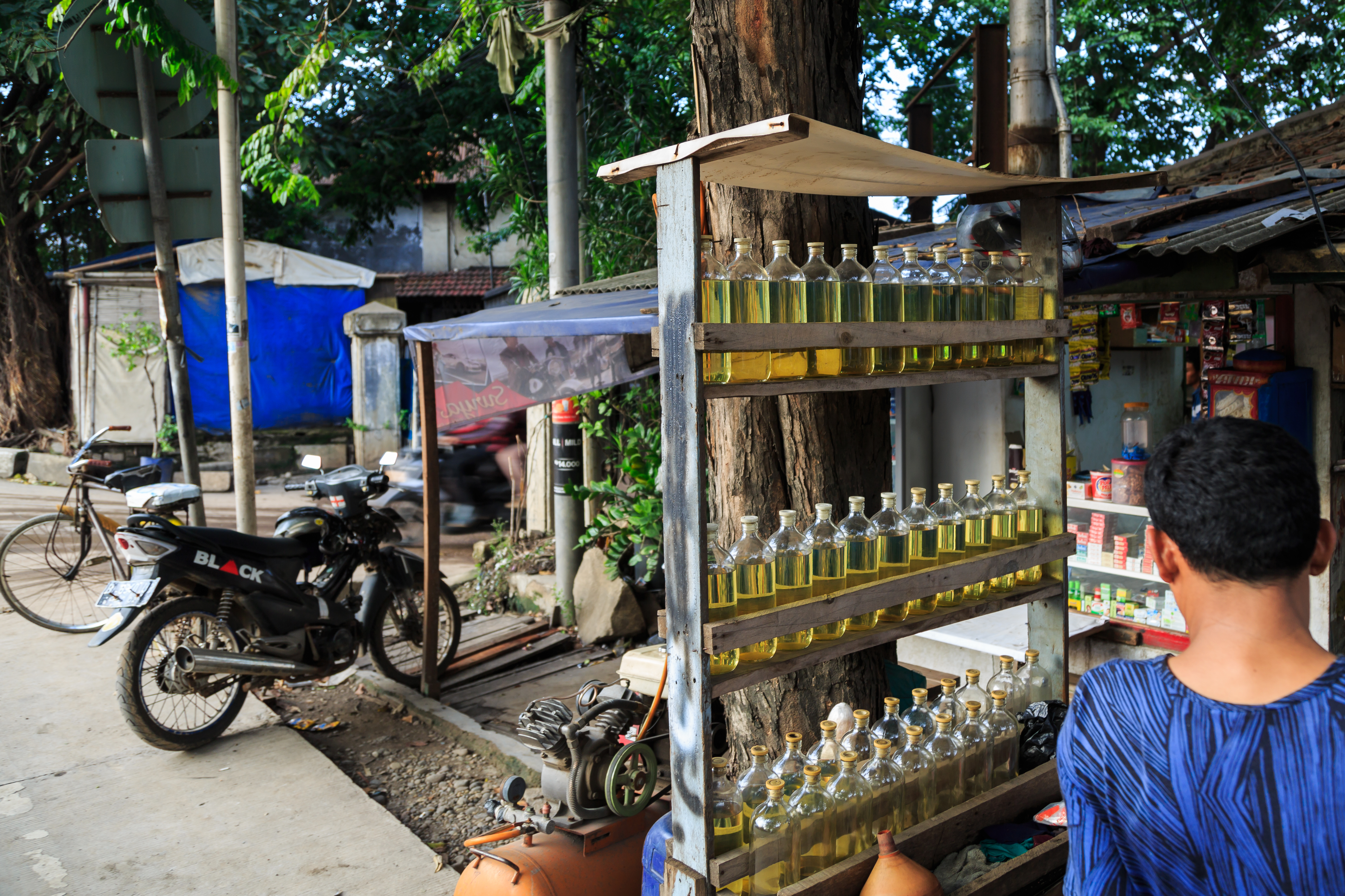 Jakarta, Indonesia: A petrol station, selling petrol for motorcycles in Old town Jakarta.